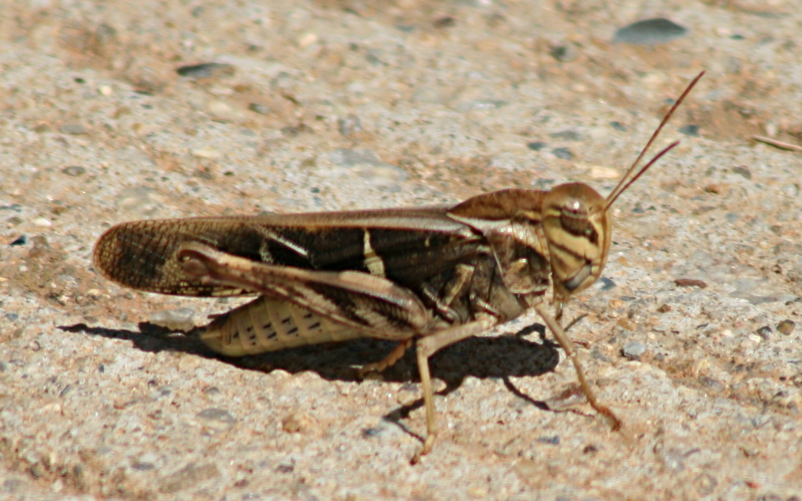 Yellow-winged grasshopper (Gastrimargus musicus) on a path by Lake Jindabyne. This species exhibits bright yellow wings with black bands and emits a loud clicking noise when it flies.